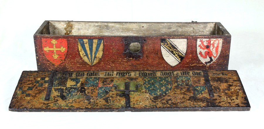 Chest made to hold the Treaty of Calais, signed between Edward III of England and John II of France. Edward agreed to give up his claim to the throne of France in exchange for the territory of Aquitaine. The chest is a rectangular coffer of oak in a boarded construction, pinned with wooden dowels: with iron strap hinges, damaged; hasp, lock, lock-plate missing; iron handle on lid. Slight evidence of internal division into two compartments. Painted decoration: on front, on a red ground, John Bokyngham (or Buckingham; died 1399), Bishop of Lincoln, Lord Privy Seal (see: The Age of Edward III edited by James Bothwell, p.178[1]); Guy de Bryan, 1st Baron Bryan, KG (pre- 1319-1390), military commander and Admiral; unidentified; unidentified on lid: Richard FitzAlan, 3rd or 10th Earl of Arundel (1313–1376) ; the Dauphin; England, ancient; Old France; the Black Prince; shield obliterated. Painted inscription:"Pax facta inter reges et regna Anglie et Francie die xxiv [mensis Octobris anno domini mccclx]" (